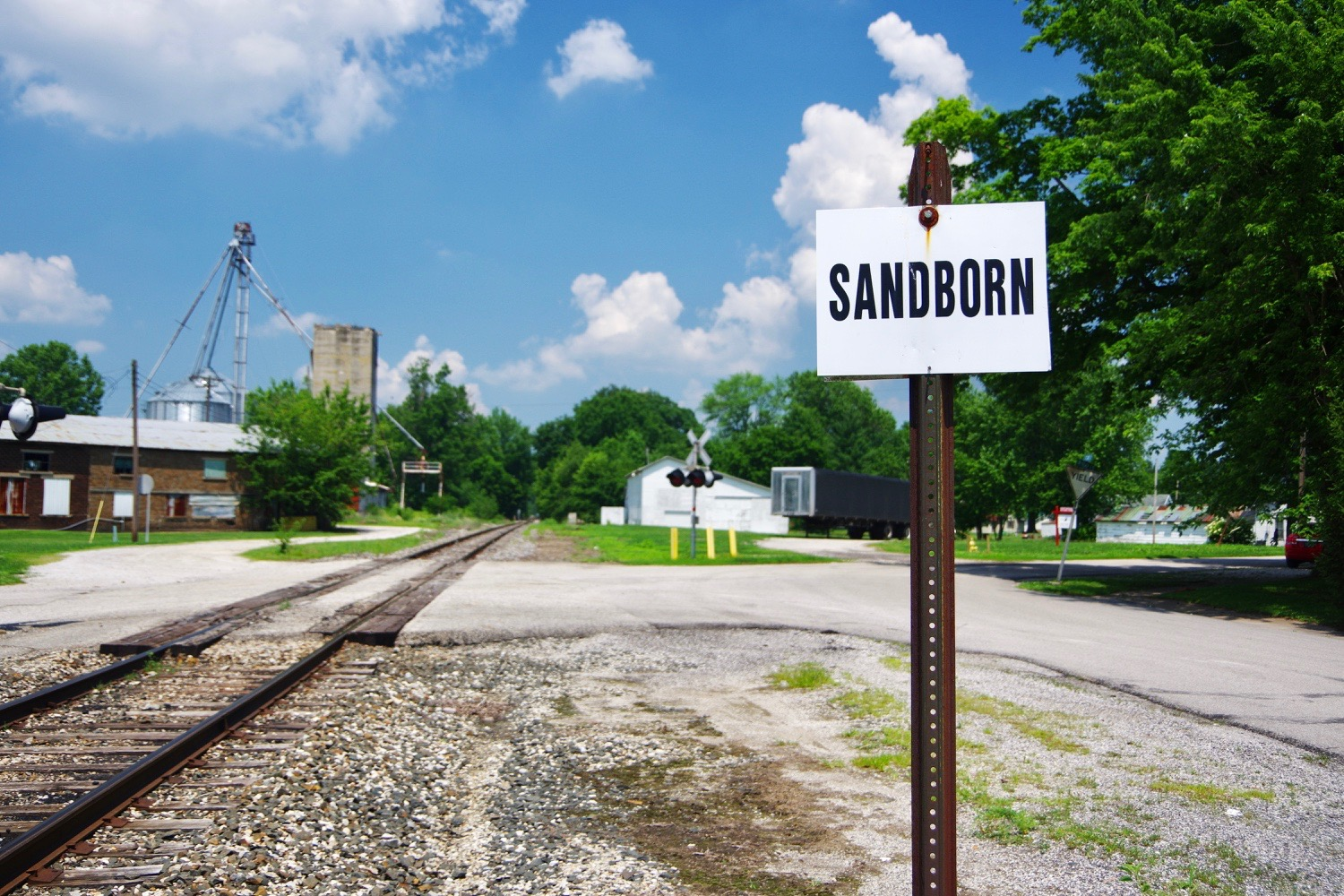 Railroad tracks in Sandborn, Indiana, United States.